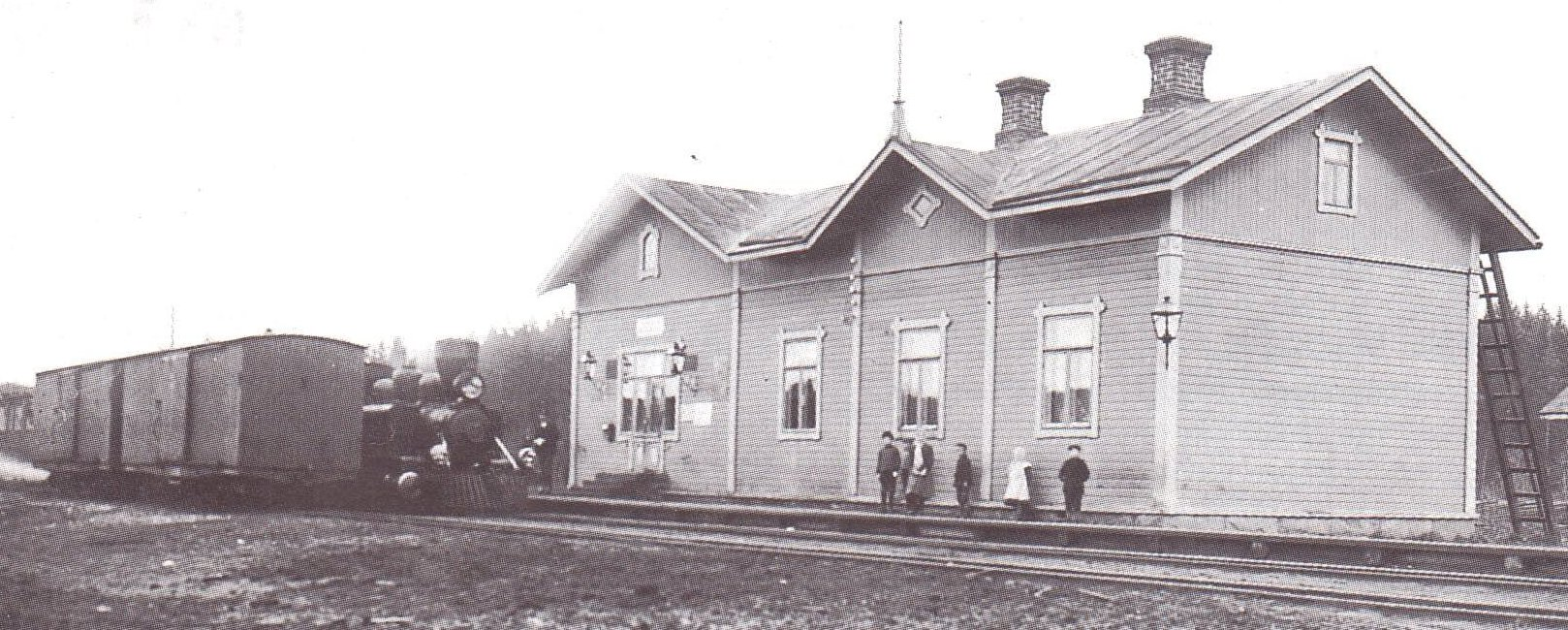 Jokioinen railway station before 1915. Locomotive in picture is original locomotive number 3.